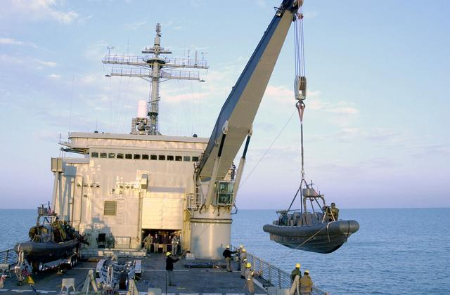 Sourced from: Details: ID: DNSD0500562 Service Depicted: Multi-National Command Shown: Ships - Foreign - Australia 020115N8421M097 Operation / Series: ENDURING FREEDOM Crew members on board the Australian Navy Kanimbla (Newport) Class (LCCH/LLP) Amphibious Forces Ship Her Majestys Australian Ship (HMAS) KANIMBLA (L 51) prepare lower a Rigid Hull Inflatable boat (RHIB) assigned to US Navy's Special Boat Unit 20 (SBU-20) Detachment 'November' over the side. Both countries are conducting joint Maritime Interdiction Operations (MIO) during Operation ENDURING FREEDOM. Camera Operator: PH2 DAVID C. MERCIL, USN Date Shot: 15 Jan 2002